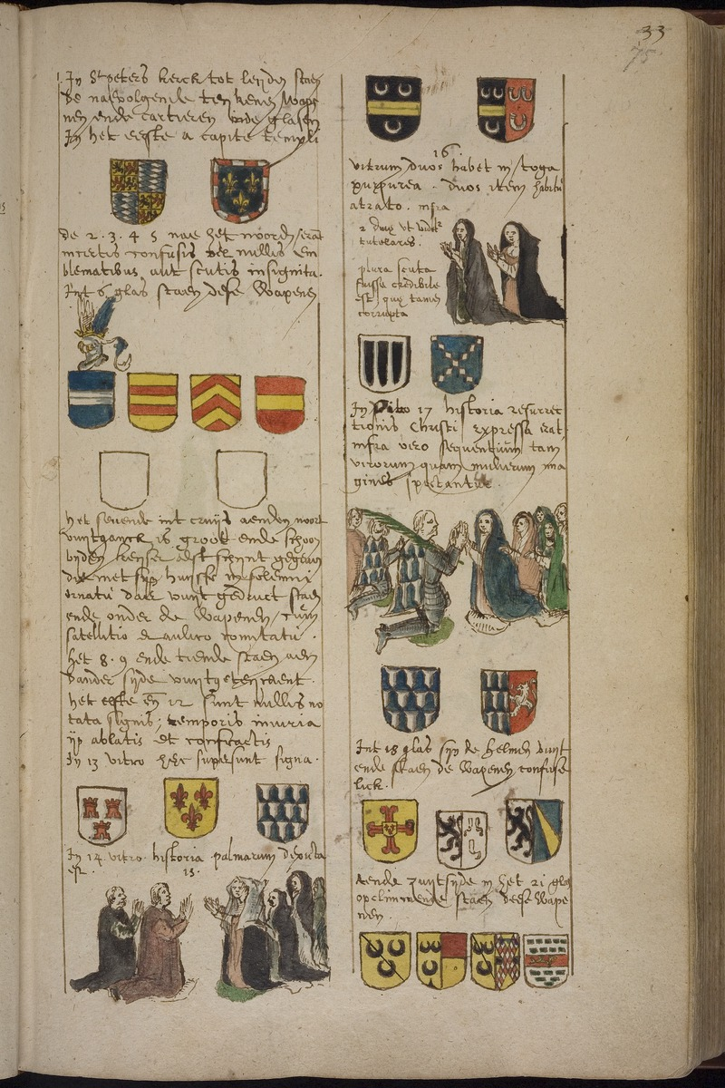 Page 75 from Buchelius'"Inscriptiones" (1641), depicting one of the stainglassed windows at Leyden Pieterskerk.